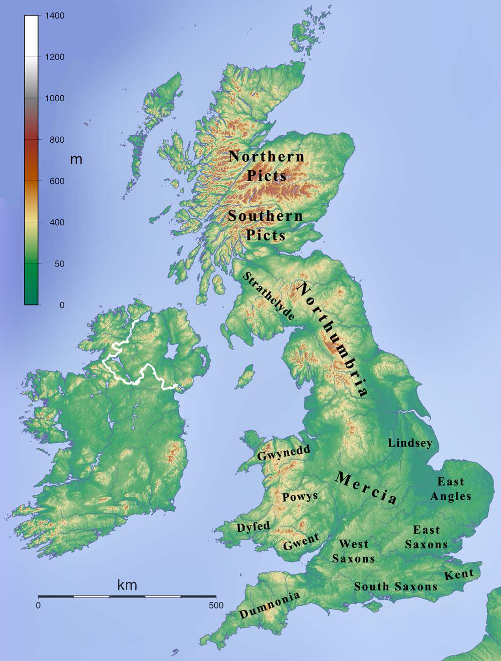 Map depicting the British Isles during the 7th century.